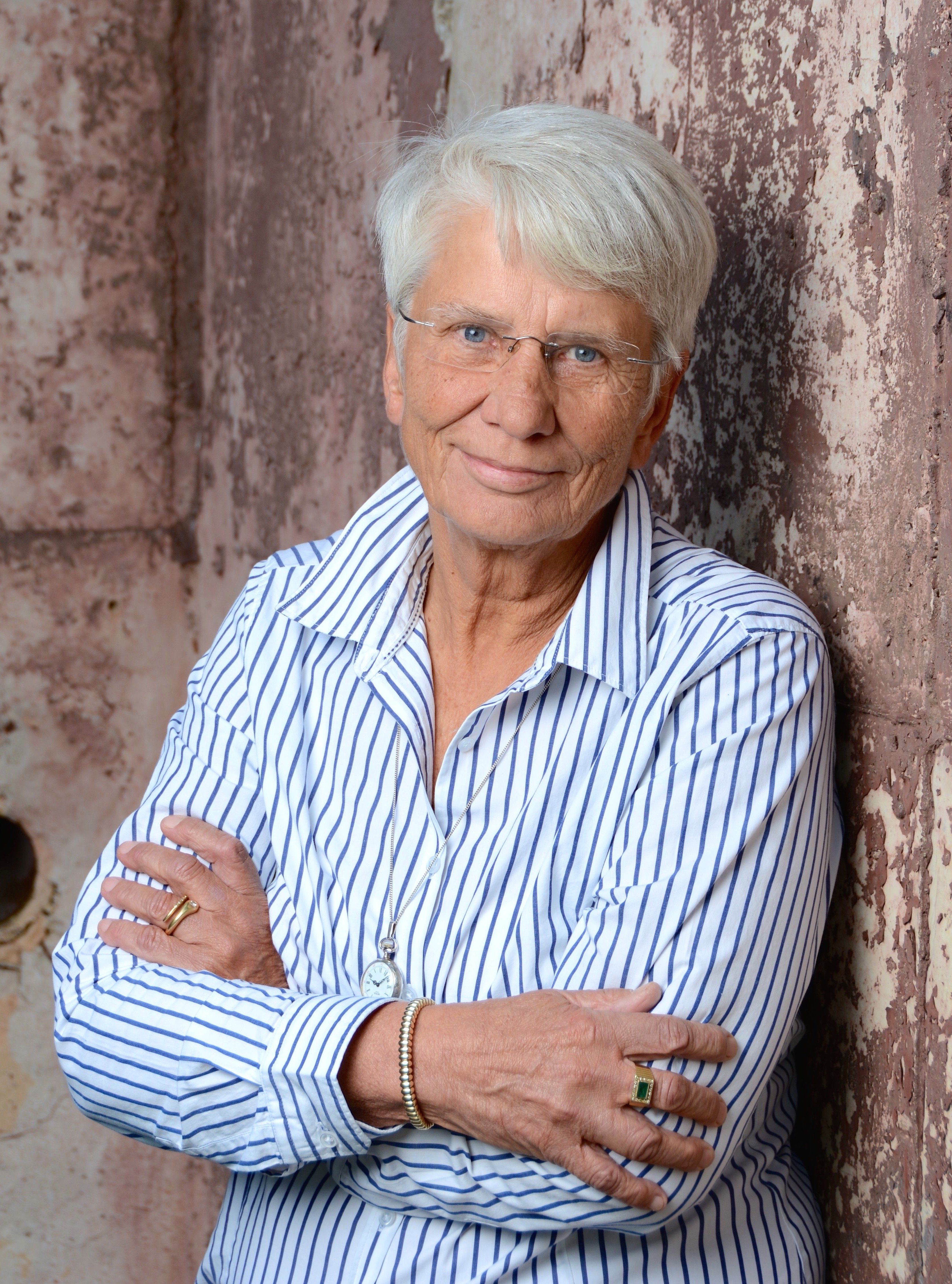 Portrait with private camera of Dr. Elke Austenat, taken by Andrea Wrba